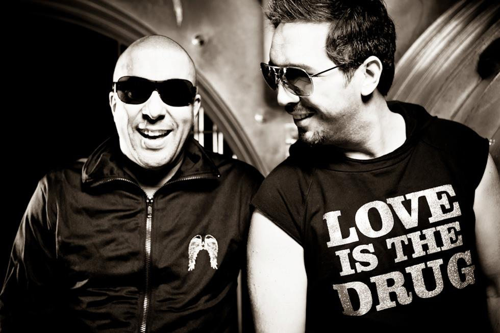 Interstate Photo Shoot at the Crocker Club, Downtown Los Angeles, Sept. 2011